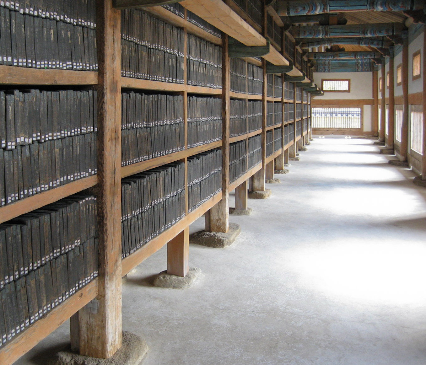 The Tripitaka Koreana (lit. Goryeo Tripitaka) or Palman Daejanggyeong ("Eighty-Thousand Tripitaka") is a Korean collection of the Tripitaka (Buddhist scriptures, and the Sanskrit word for "three baskets"), carved onto 81,258 wooden printing blocks in the 13th century. The work is stored in Haeinsa, a Buddhist temple in South Gyeongsang province, in South Korea.